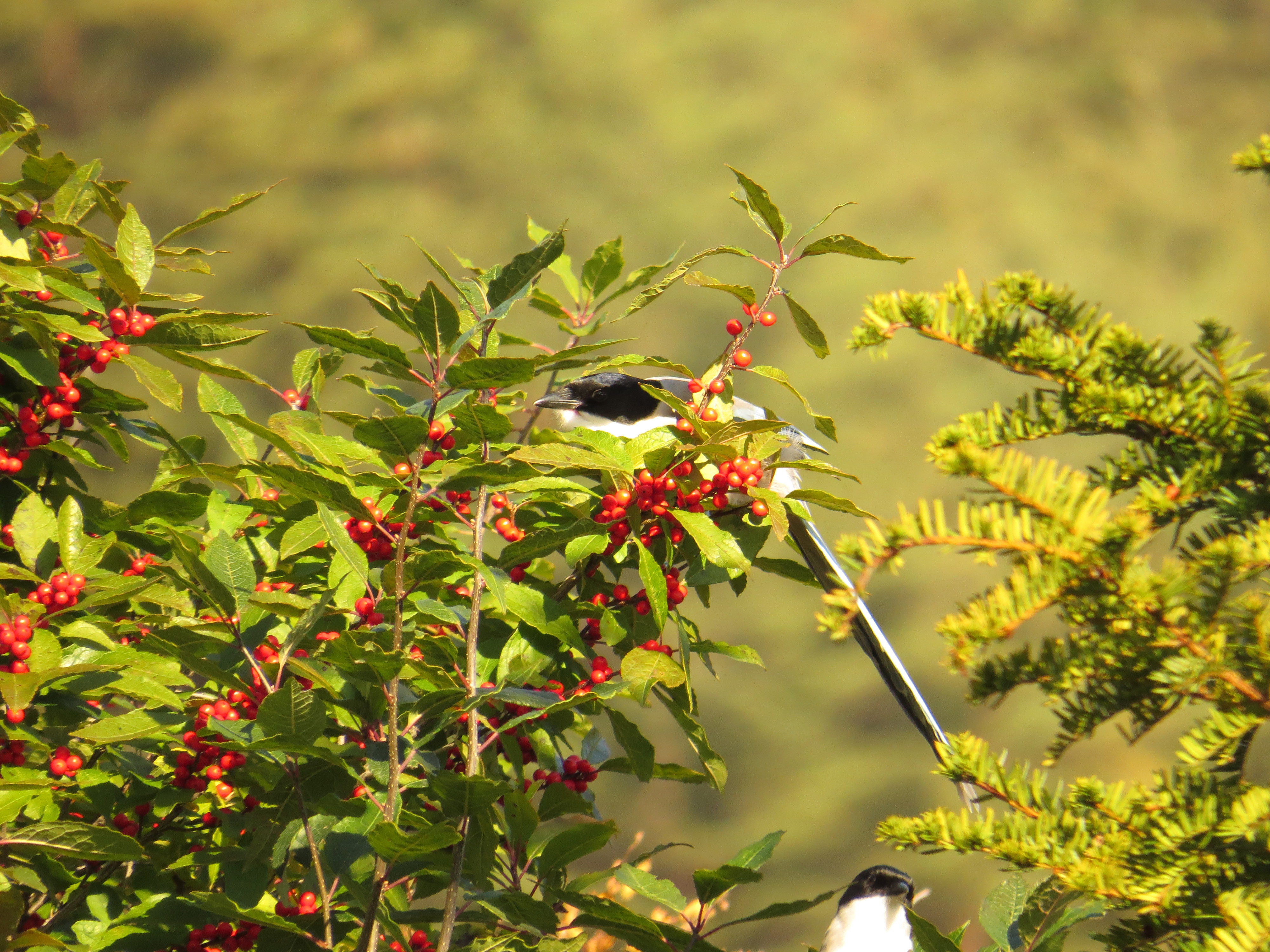 Cyanopica cyanus Pallas, 1776, Azure-winged Magpie, Pyeongchang, South Korea, 11 October 2014